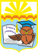 Omsk School 117. Coat of Arms